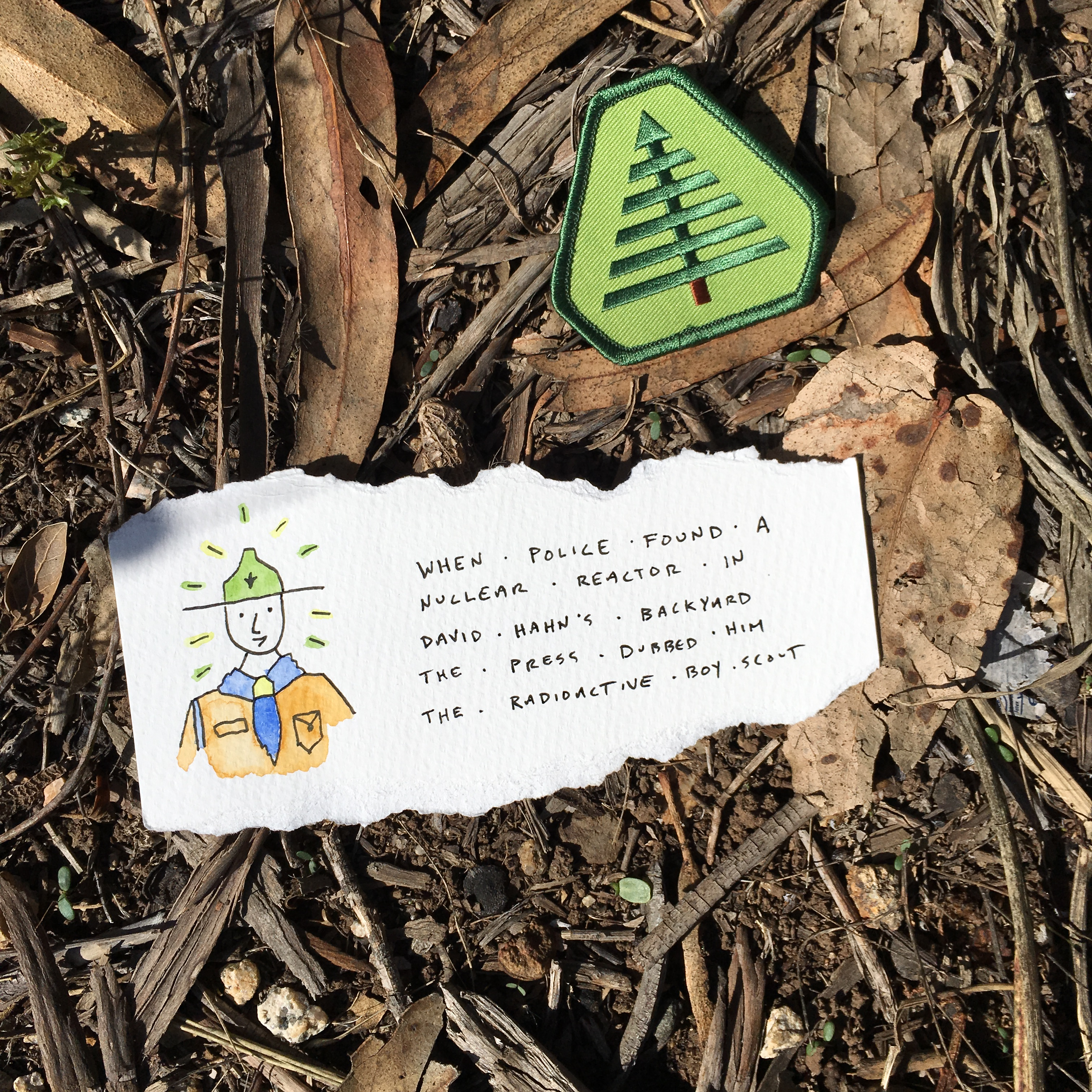 From "Wikipedia in Watercolors" - a year of illustrating 50 colorful facts from Wikipedia.